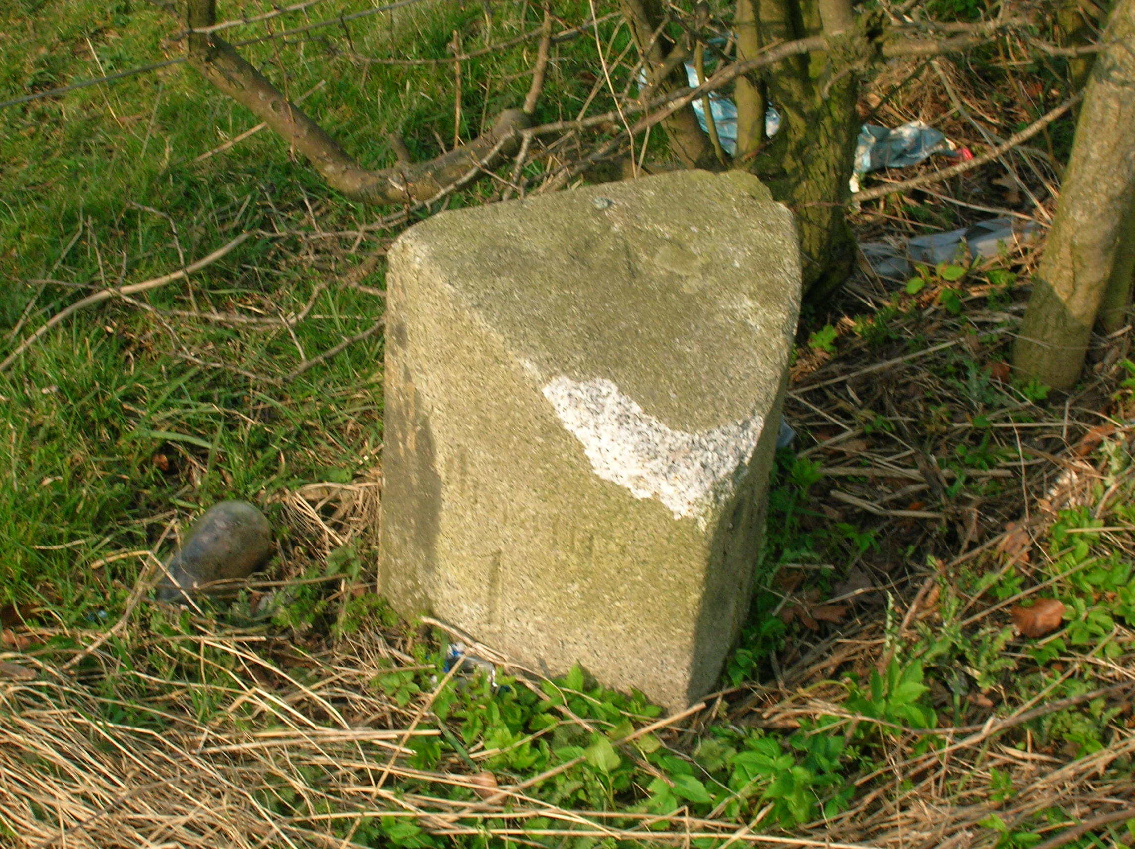 The old milestone near Waterpark farm on the outskirts of Knockentiber, North Ayrshire, Scotland in 2007.